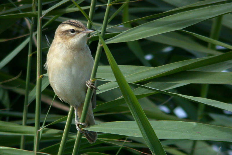 Juvenile Sedge Warbler, Acrocephalus schoenobaenus, in reeds at RSPB Titchwell Marsh, Norfolk, England.